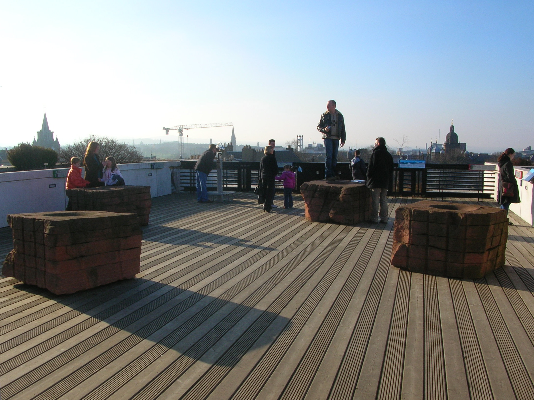 The Museum of Scotland in Edinburgh.Photo taken at the National Museum of Scotland, Edinburgh